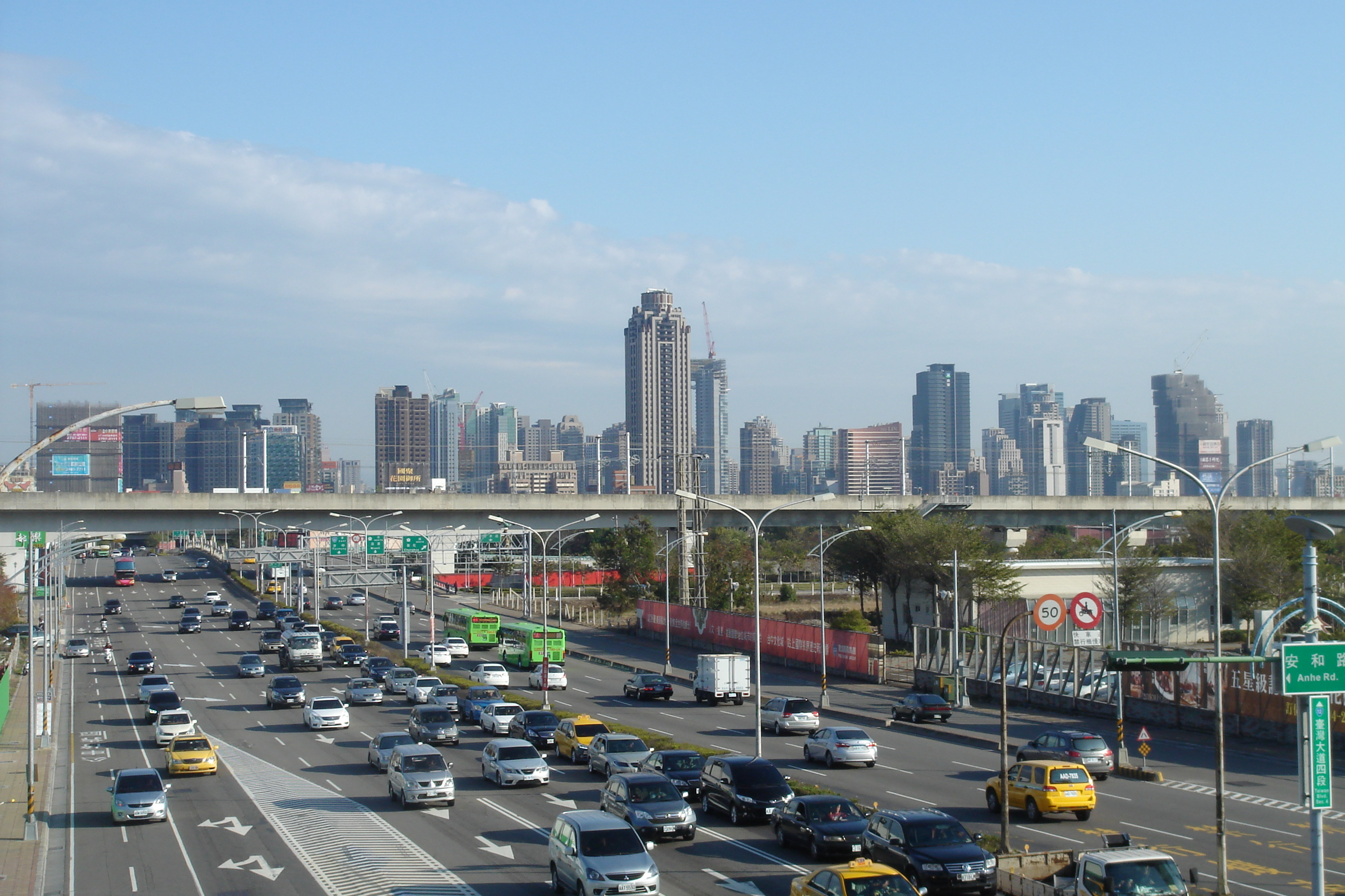 View of the New Civic Center Area, looking east from an overpass at the intersection of Taichung Port Road (Section 4, Taiwan Boulevard) and Anhe Road in Taichung City. left: 12th Redevelopment Zone central and right: New Civic Center Area